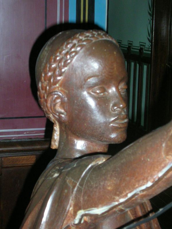 Statue of Abdullah in Abbadia castle, Hendaye (France)